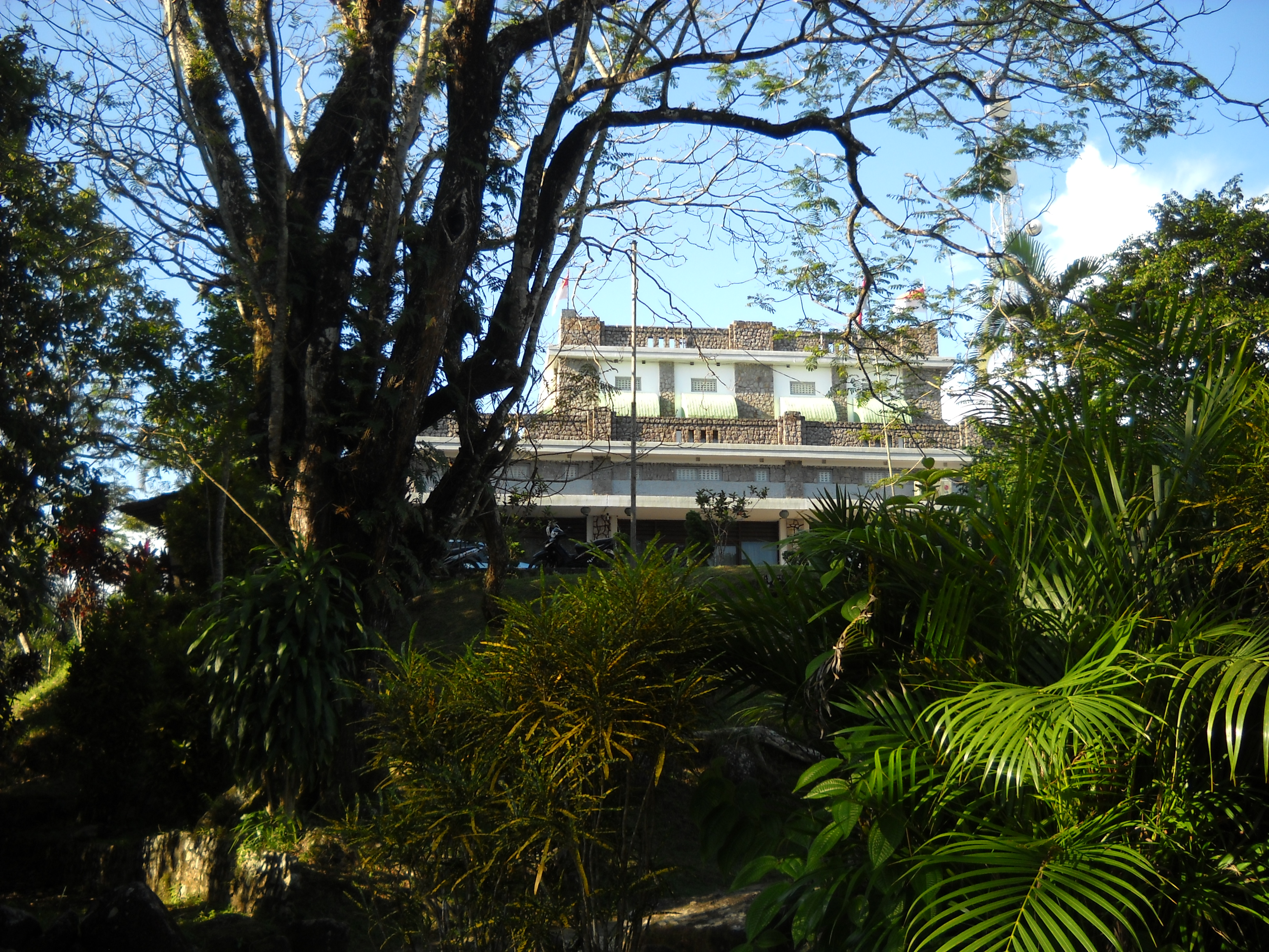 Wisma Menumbing (Menumbing Residence) in Muntok, Bangka Island